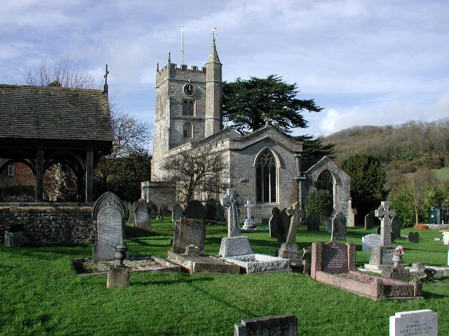 Compton Dando (Somerset) Church of St Mary.